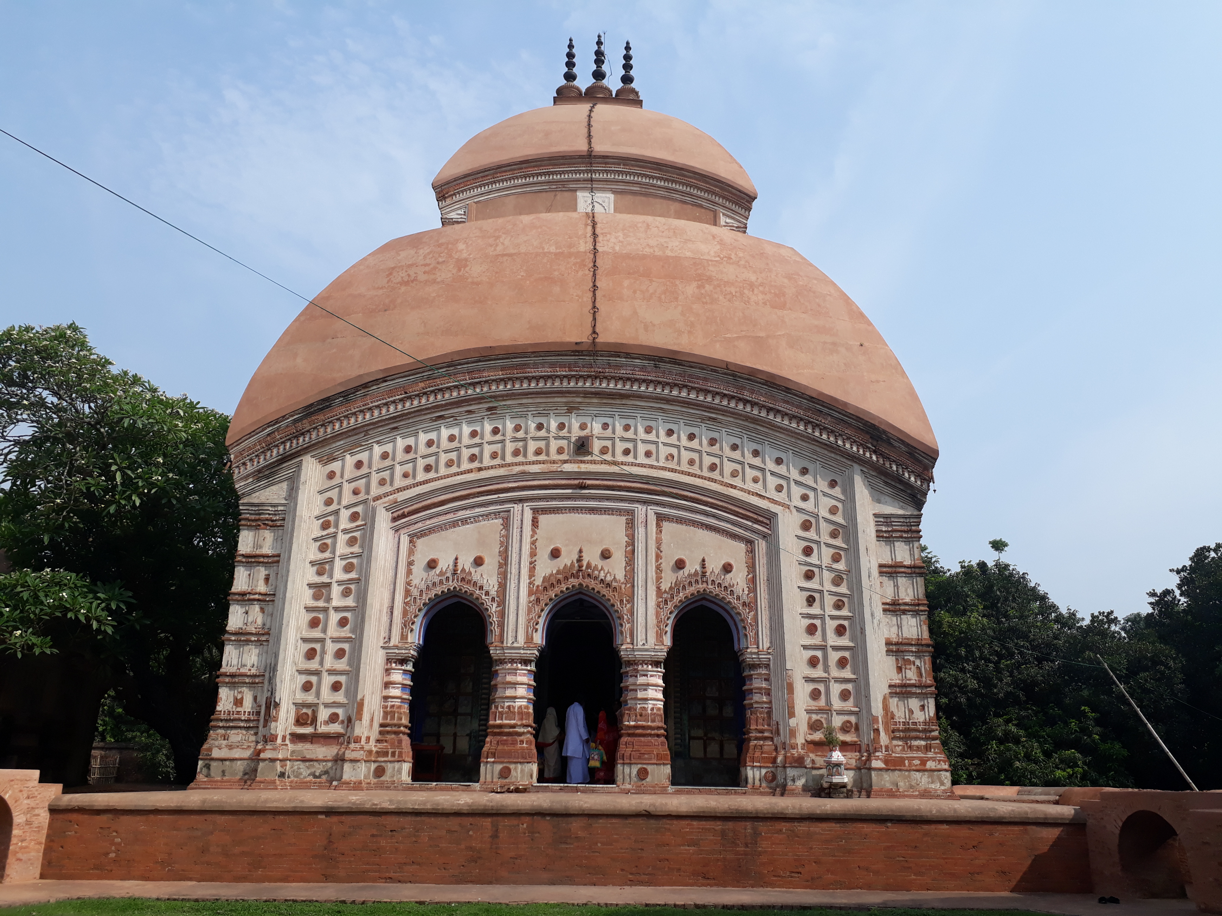 Brindabanchandra Temple at Guptipara